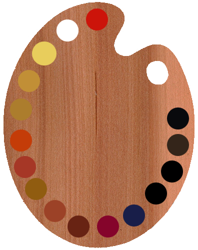 Palette of the Painting "The Raft of the Medusa", by Gericault